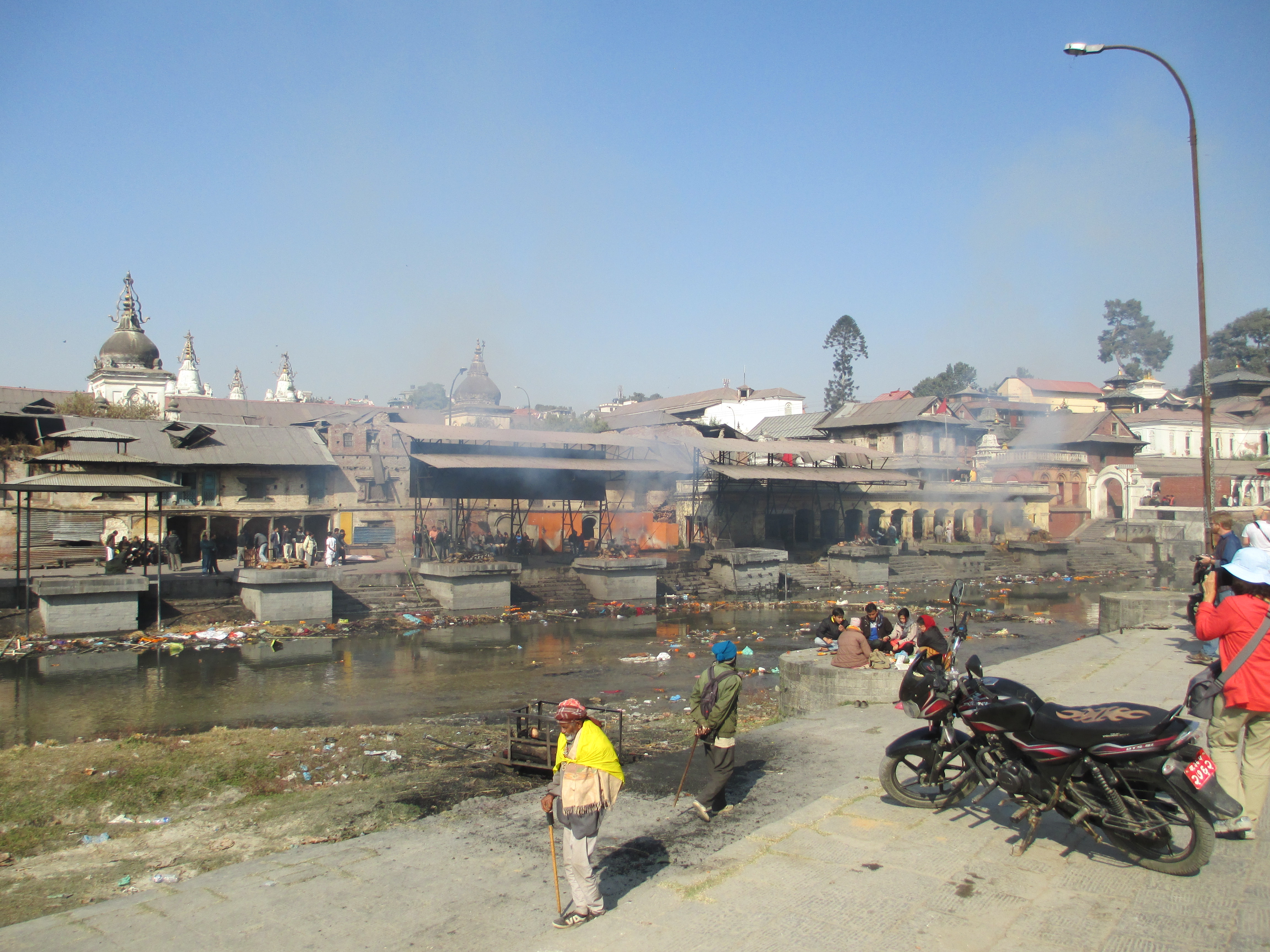 Live cremations on the Banks of Bagmati River